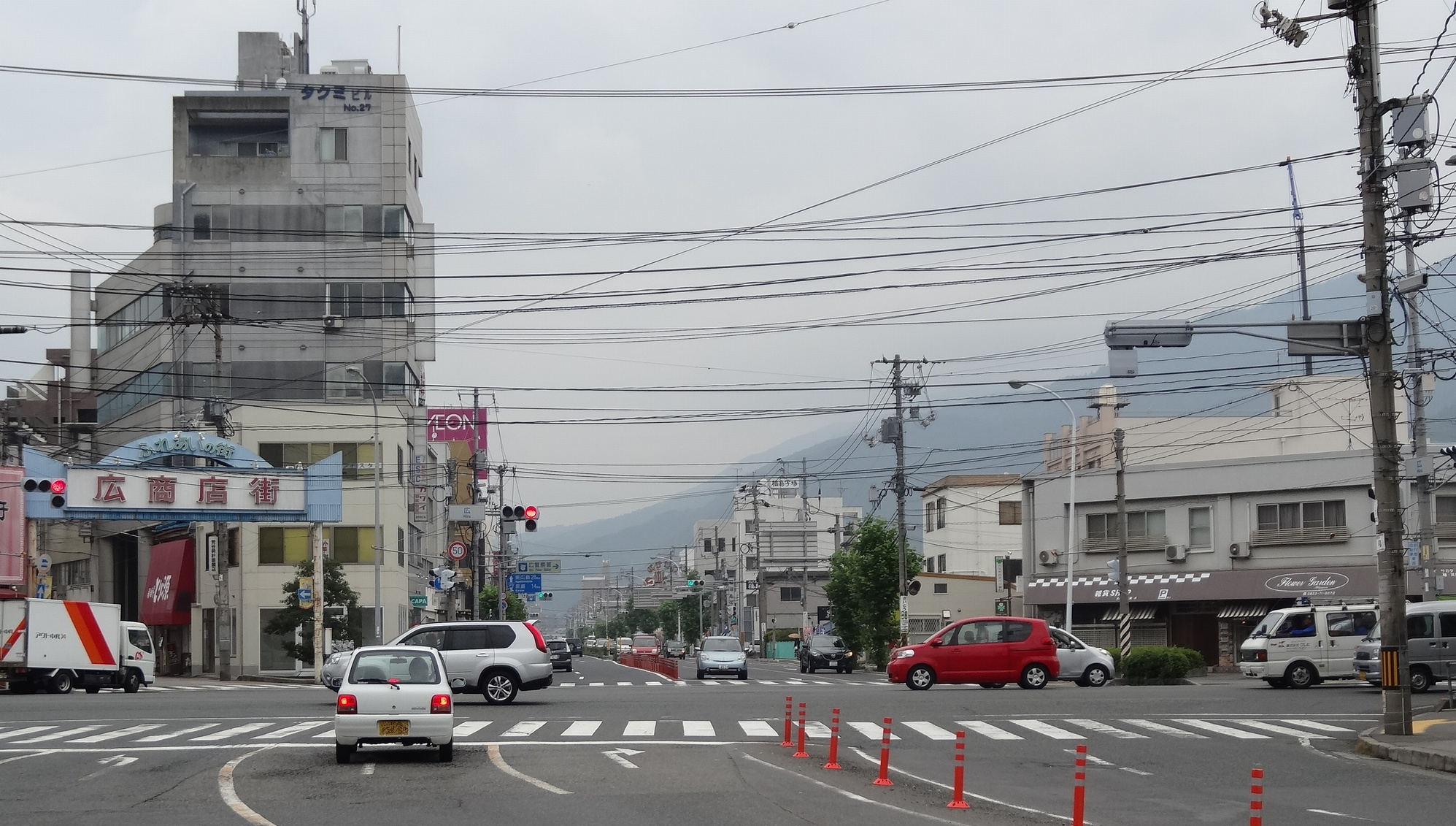 "National Route 375" Origin at Hiro Crossing, Kure City, Hiroshima Prefecture, Japan)